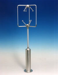 WindMaster 3D Anemometer